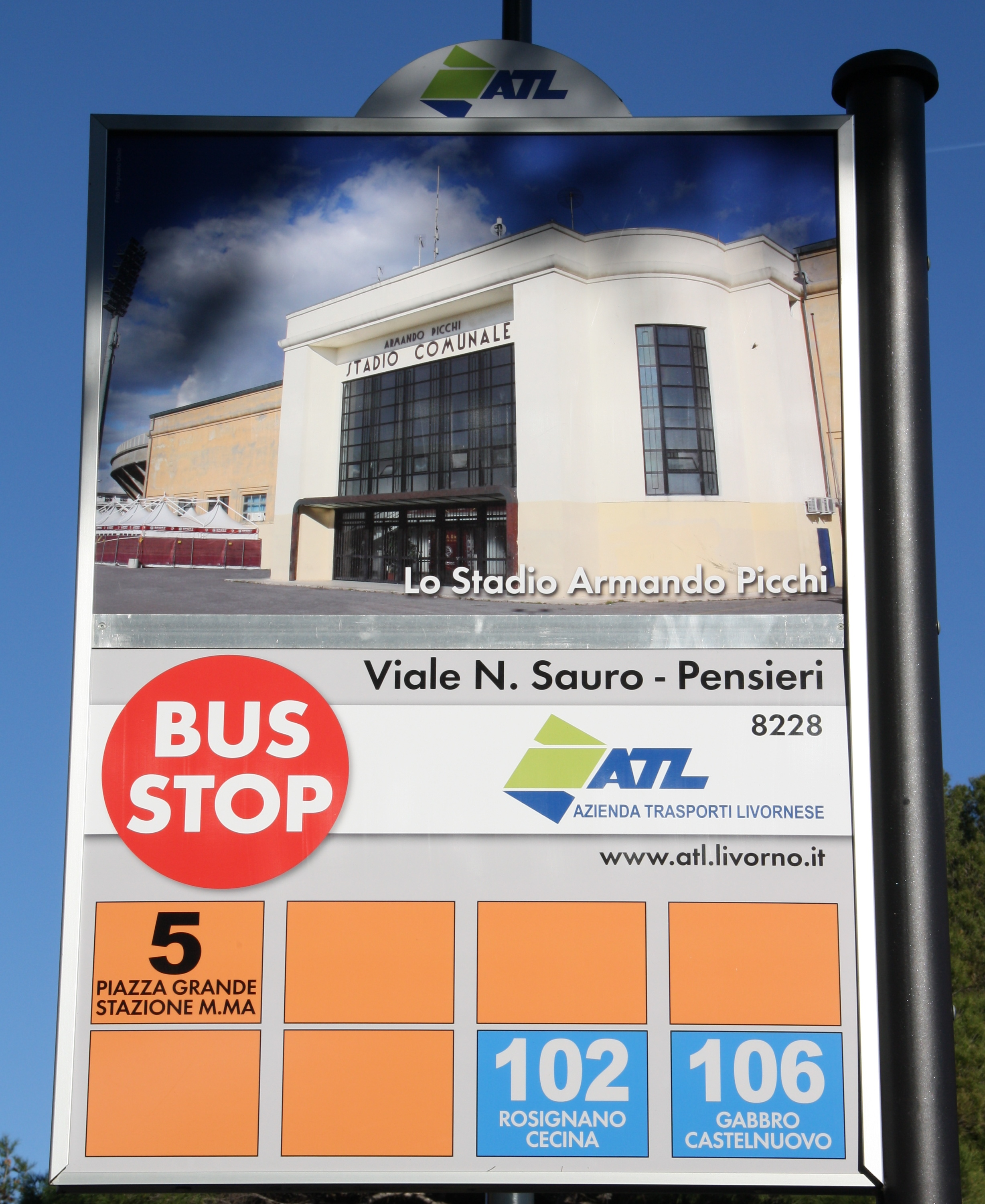 Italy Livorno, Viale Sauro. Azienda Trasporti Livornese bus stop sign is characterized by the image that recalls the place, here the Stadio Armando Picchi.